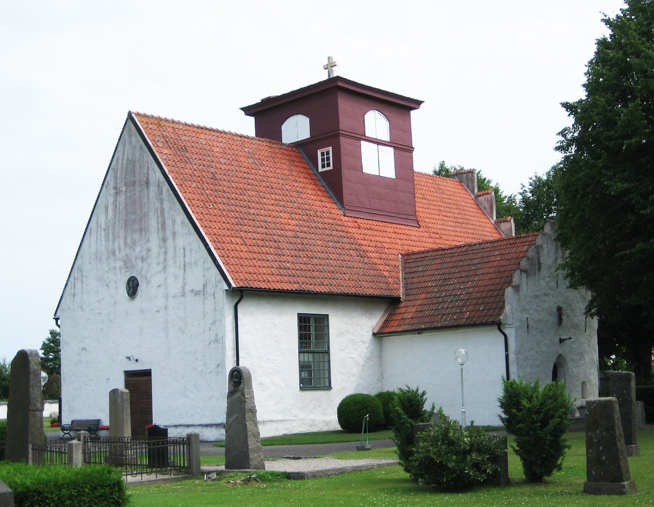 Rinkaby kyrka, Skåne, Sweden. Photo by the uploader.